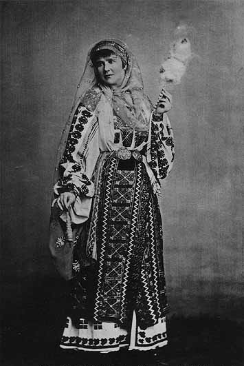 Elizabeth of Wied (1843 - 1916), Queen of Roumania in the National Costume from a photograph by Franz Duschek, from Roumania Past and Present by James Samuelson, George Philip & Son, London, 1882